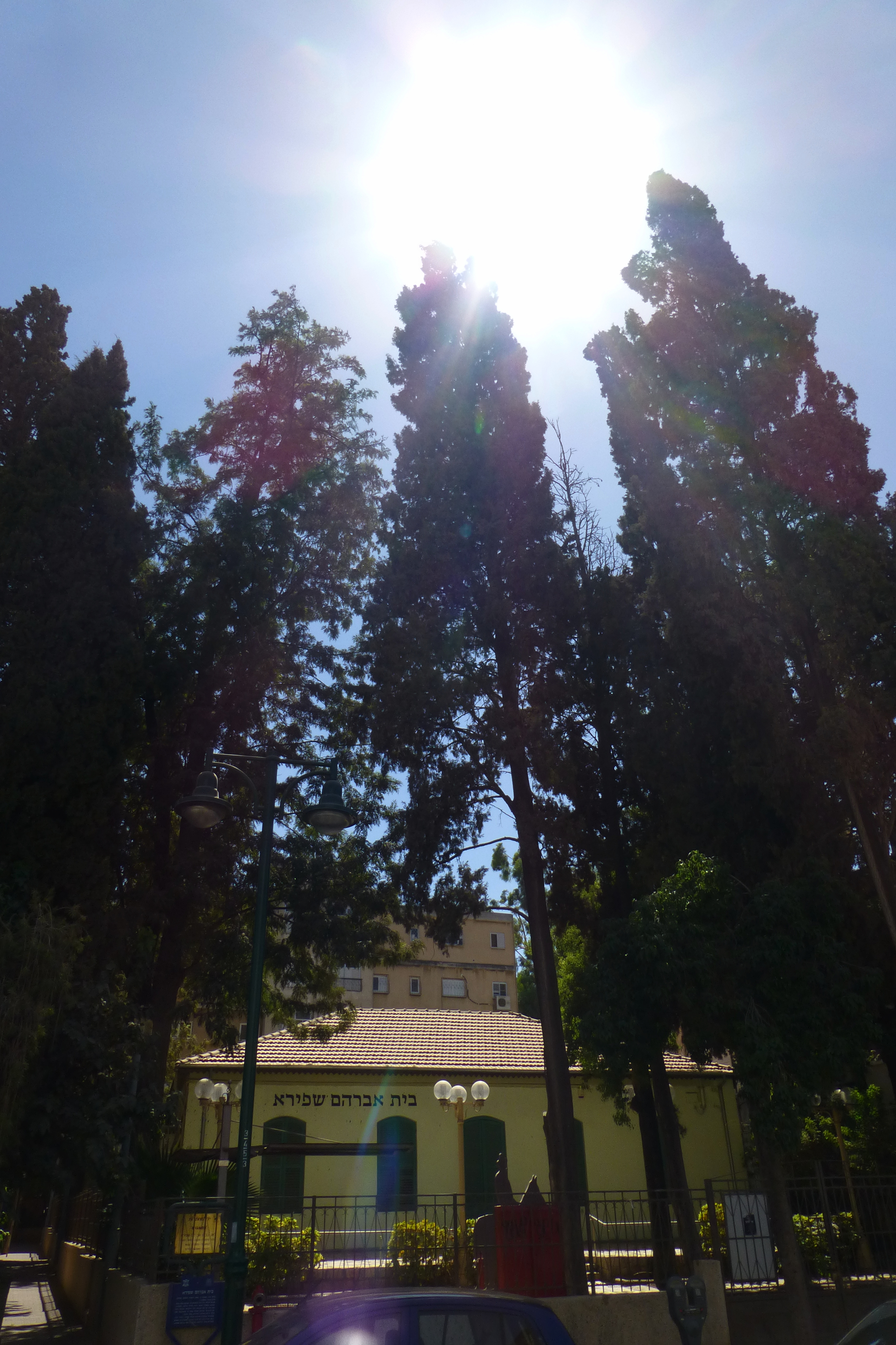 Avraham Shapira's House